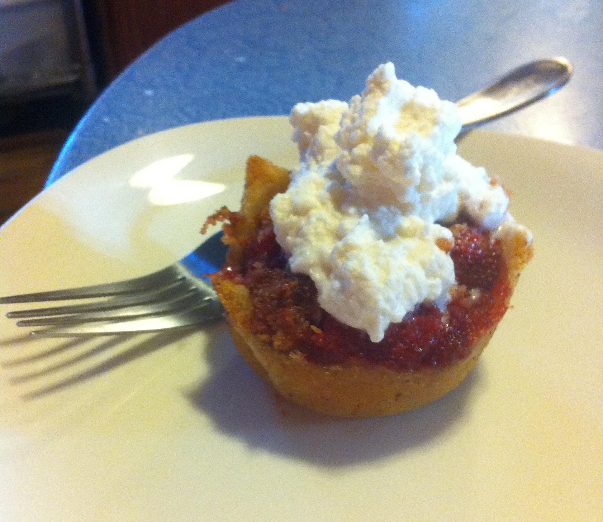 I think our panko was a little stale, but these are nice.